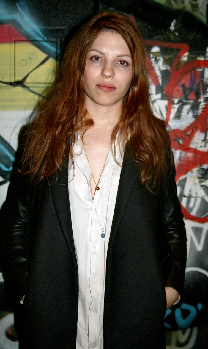 Anja Plaschg aka Soap&Skin at the Waves Vienna Music Festival & Conference 2011 in Vienna.